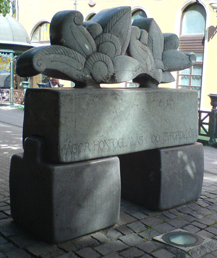 Millecentennial monument, Miskolc, Hungary. Sculptor: Éva Varga